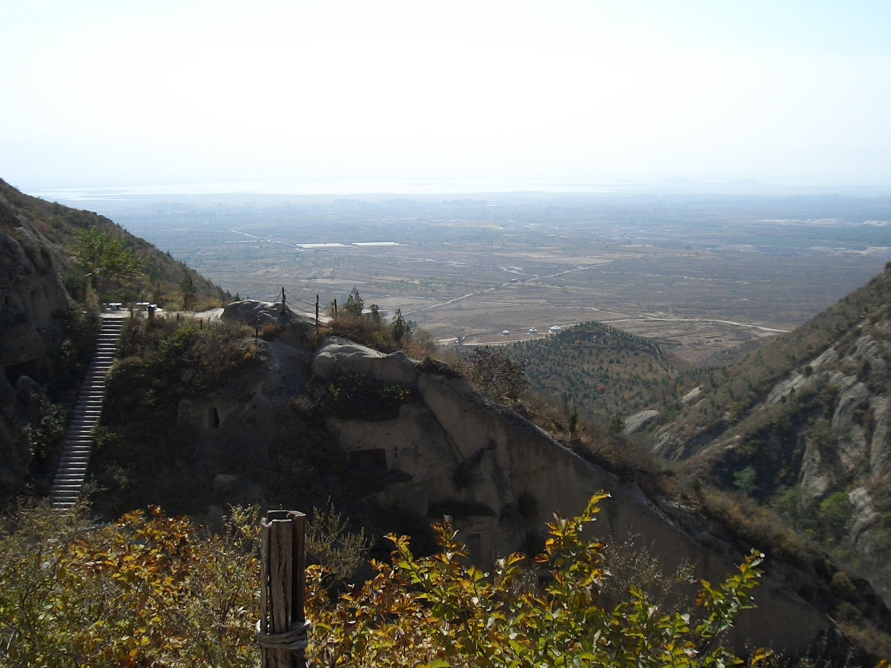 Yanqing county, about an hour north of Beijing. View somewhat near the Guyaju ruins.